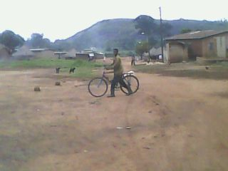 L'entrée sud du village de Gbogolo, route de Toukro et Gbiéla